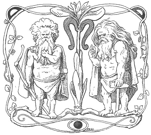 An illustration of two dwarves for Völuspá. Uncaptioned, and no title given.